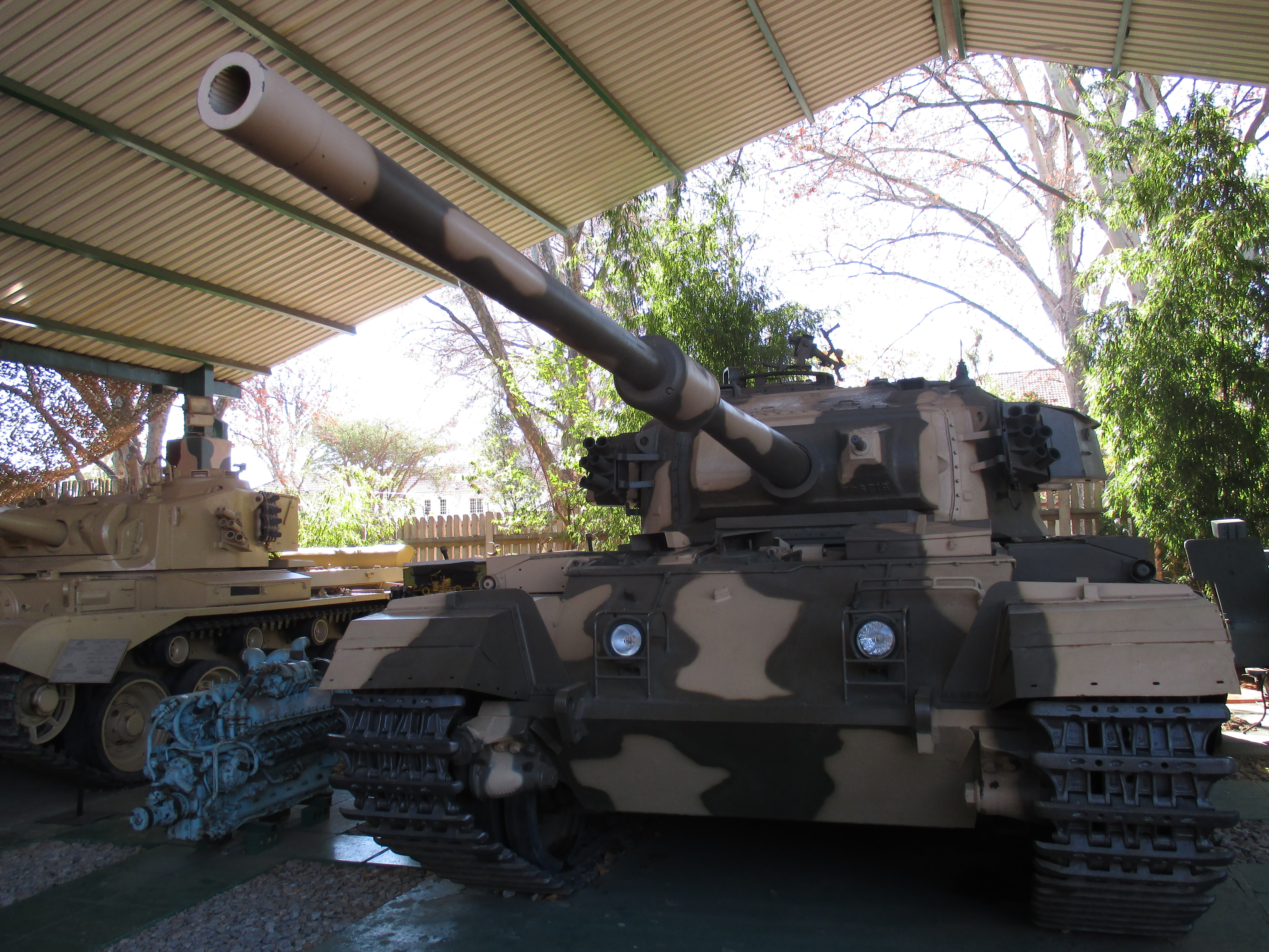 Description: Modified Centurion (Olifant) tank at the South African National Museum of Military History, Johannesburg.